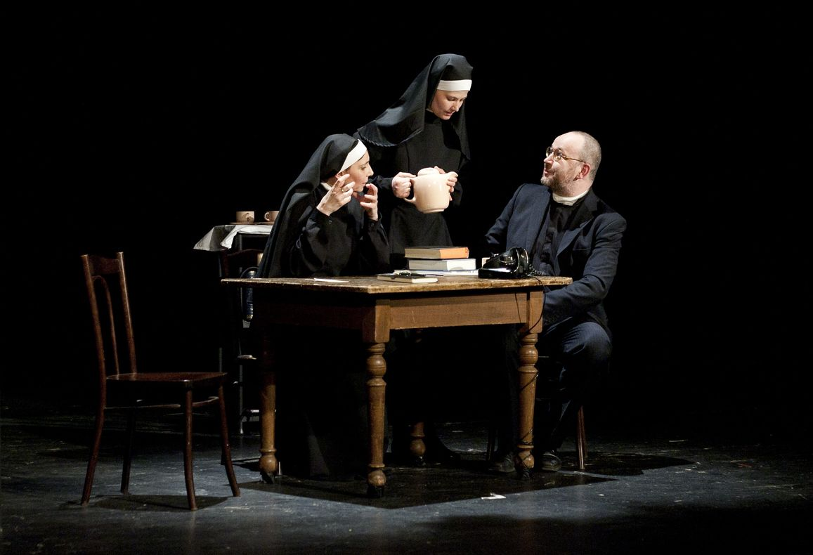 J P Shanley's DOUBT (the play) produced by Divadlo SoLiTEAter, Prague, Czech Republic